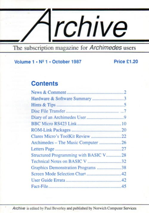 Archive magazine, vol.1 iss.1 October 1987